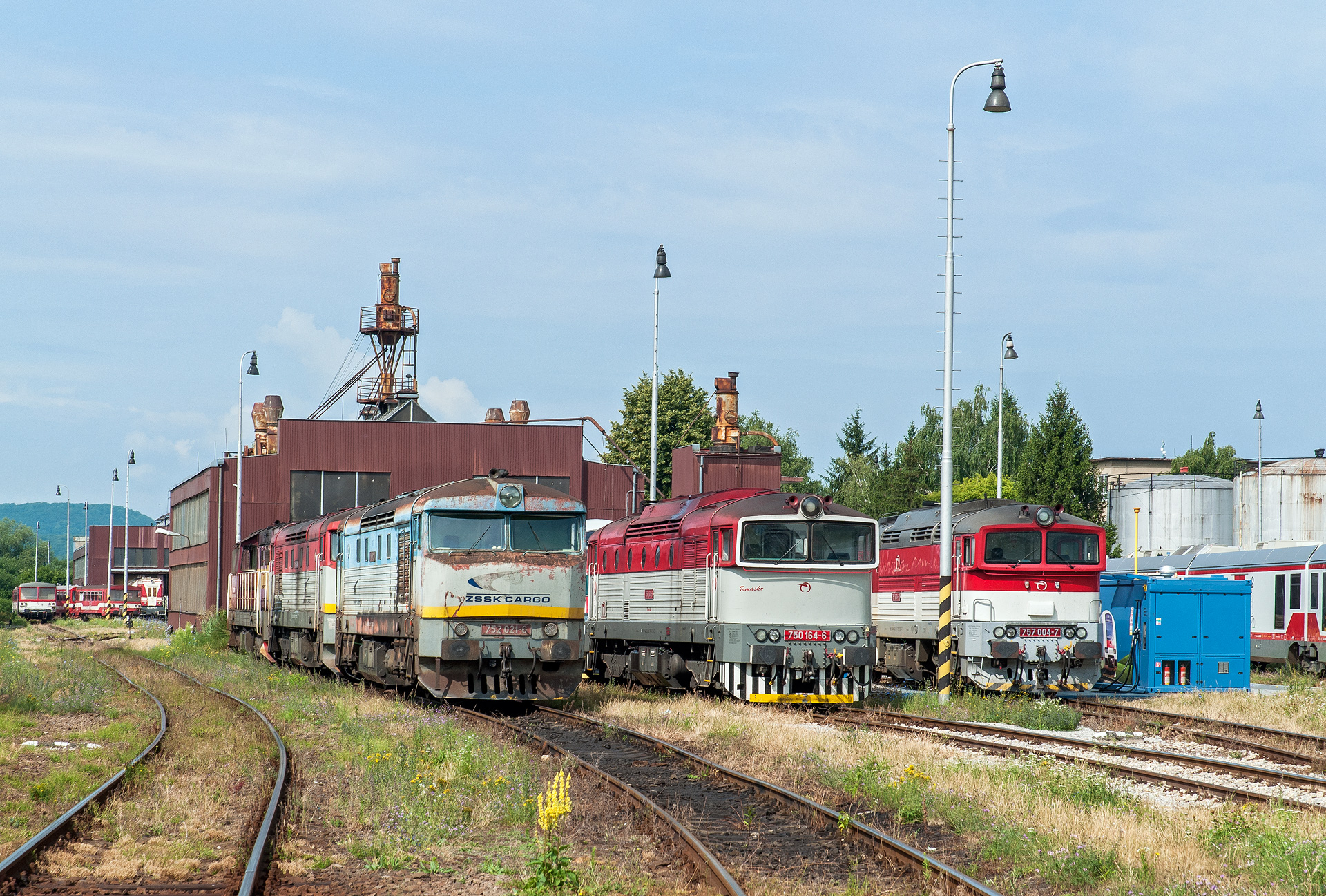 Diesel engines 752.021 (ZSCS), 750.164 and 757.004 (ZSSK) at engine depot Humenne (Slovakia).